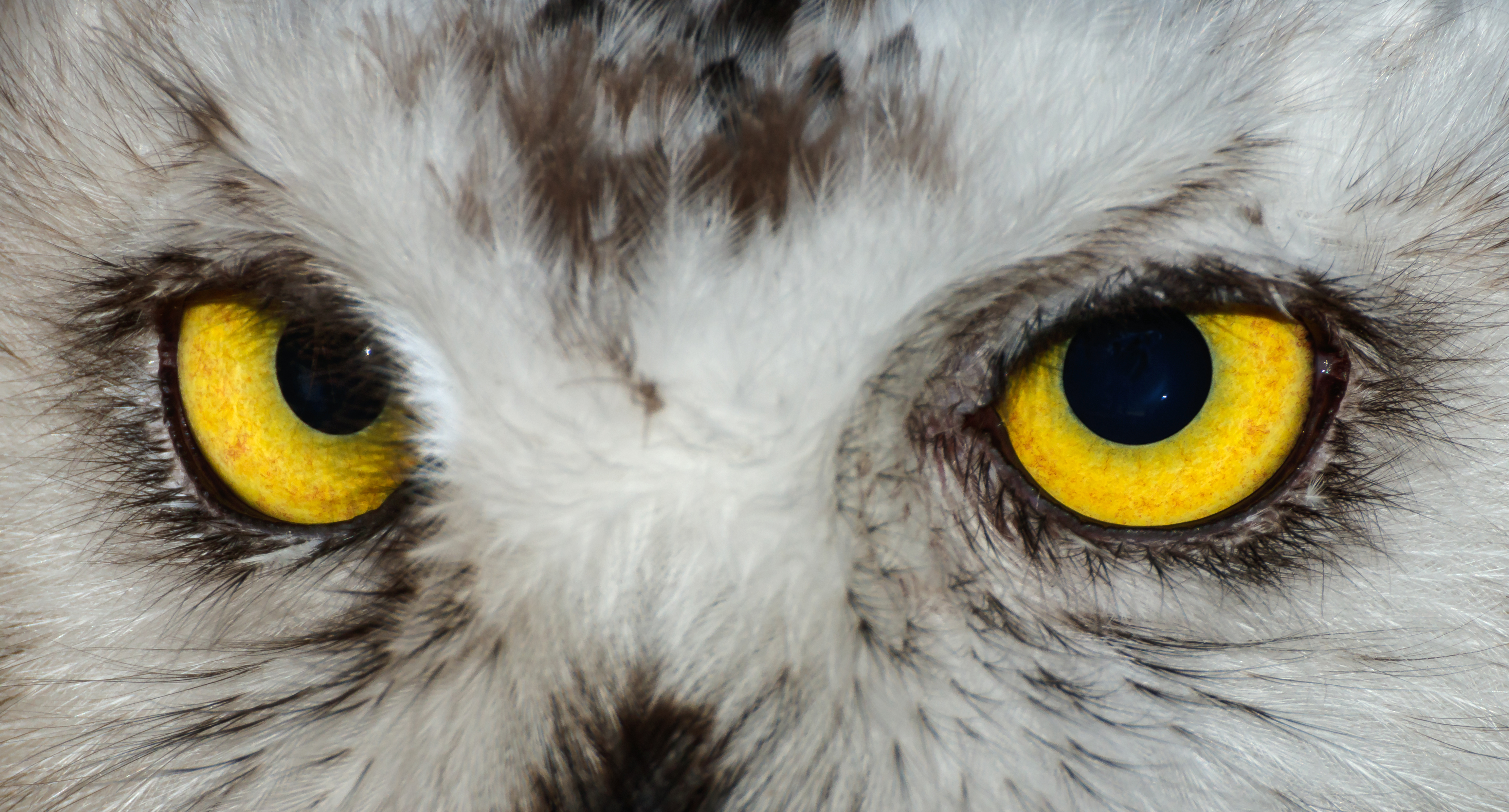 Bubo scandiacus (Linnaeus, 1758), Snowy owl; Zoologischer Stadtgarten Karlsruhe, Karlsruhe, Germany.